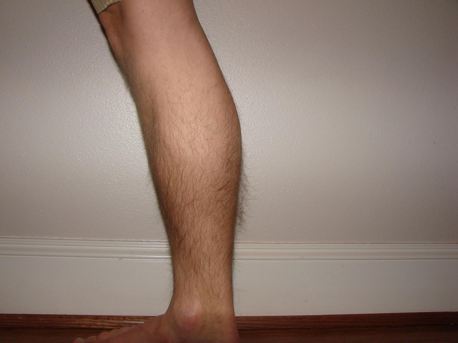 Kevin Chambers, Kaleb Nyquist; Sony Cypershot